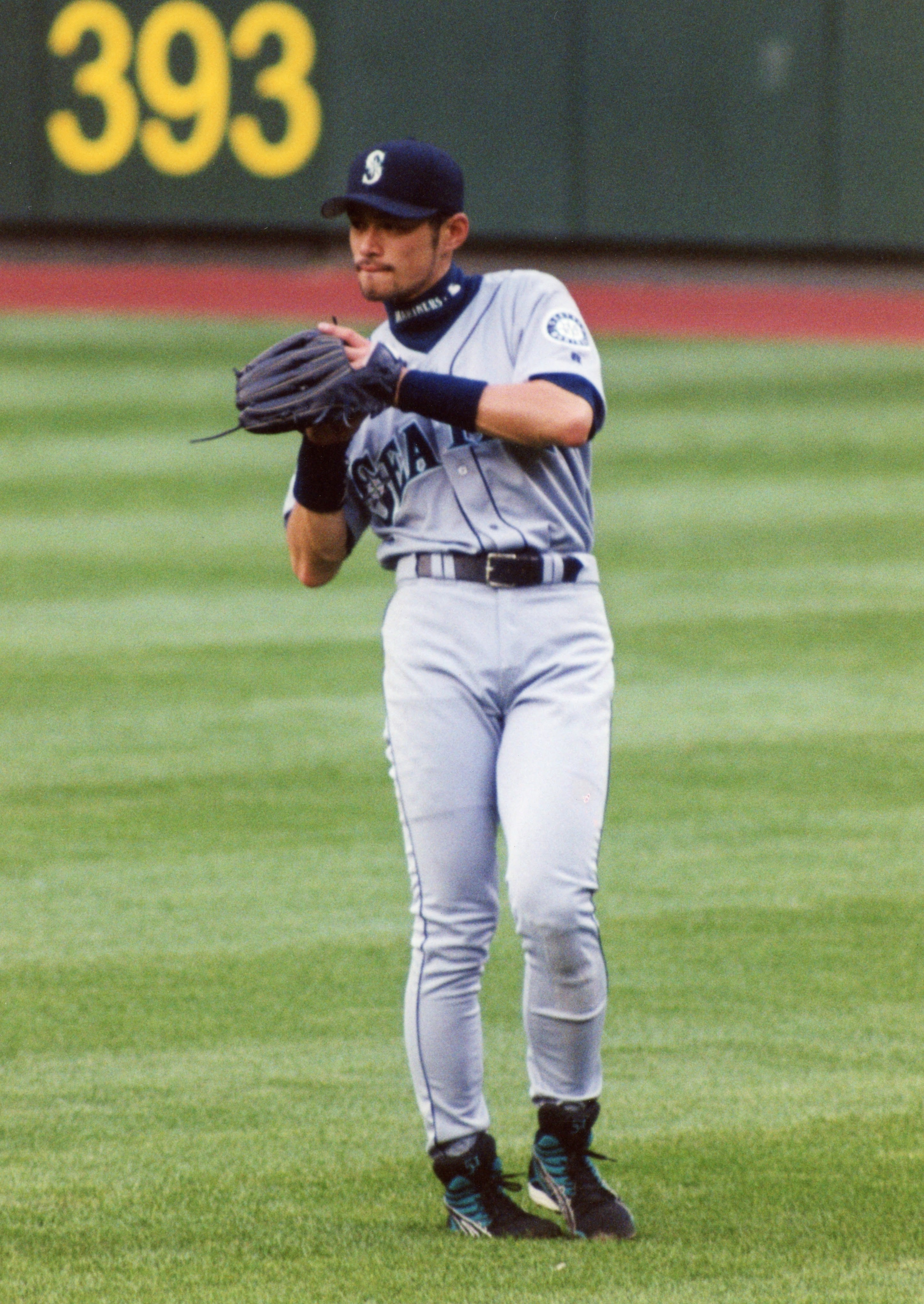 Ichiro Suzuki, 2002, by Rick Dikeman